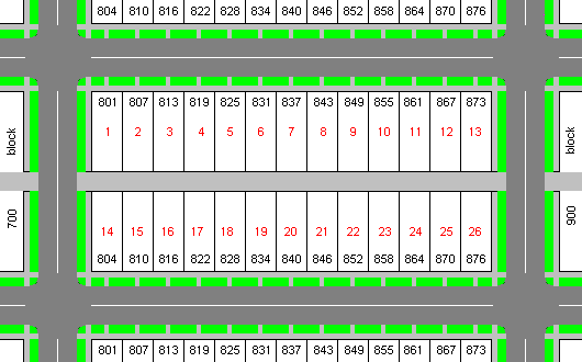 Diagram of an example of a rectangular City Block as seen from above, surrounded by streets. The block is divided into lots which were numbered by the developer as shown in red here and as shown in plats. The addresses on this example 800 block are shown in black and the adjacent blocks are the 700 and 900 blocks. An alley shown in light gray runs lengthwise down the middle of the block. Streets are shown in dark gray. Sidewalks are shown in light gray. Parkways are shown in green with walkways shown in light gray from every lot to the street. H Padleckas created this image file in the middle of September 2006 especially for use in the article "City Block" in Wikimedia. H Padleckas 21:07, 16 September 2006 (UTC)